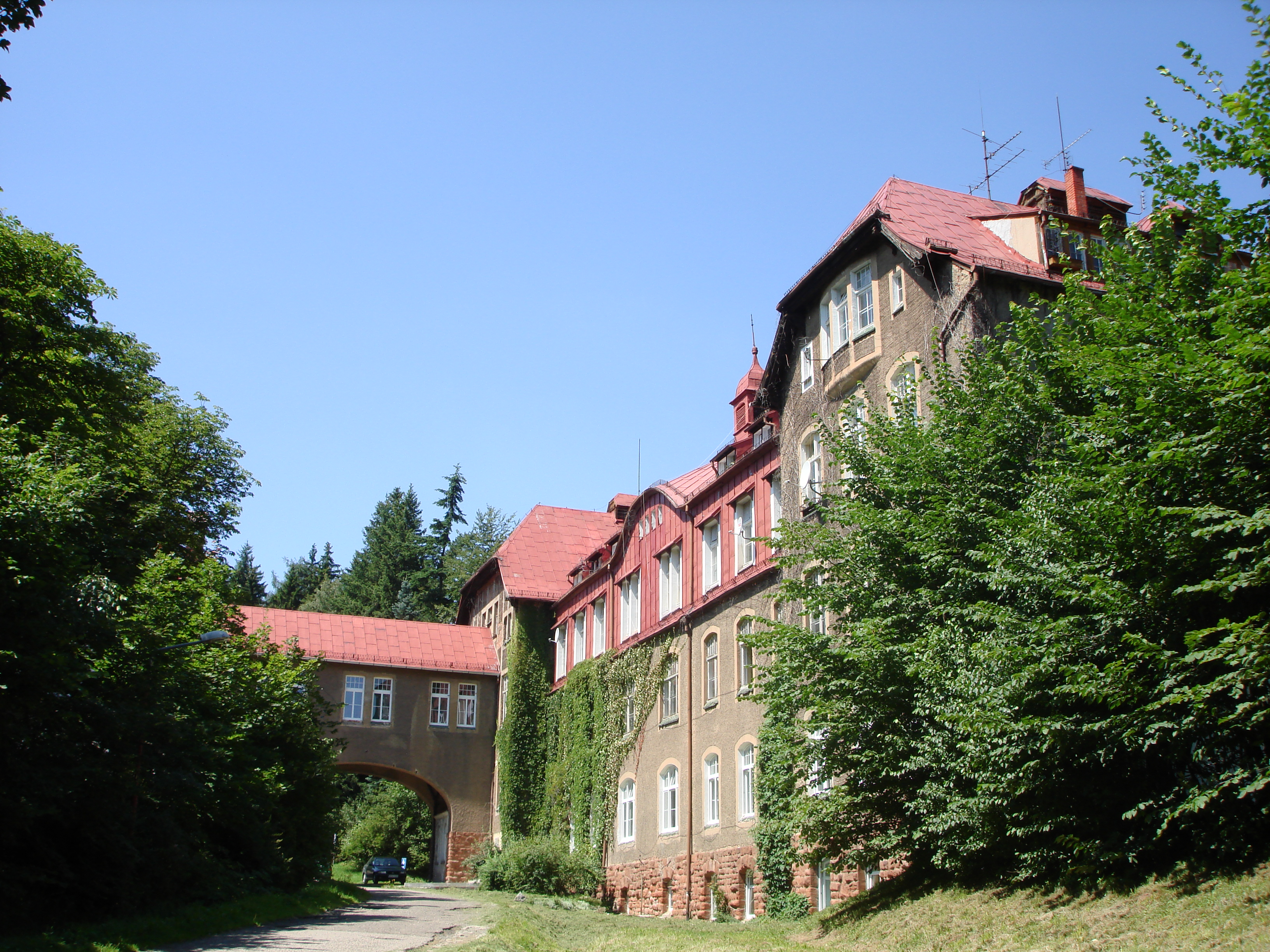 Lower Silesian Rehabilitation Centre